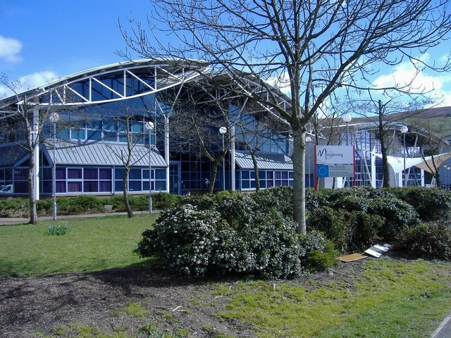 Coleg Morgannwg The Nantgarw campus.